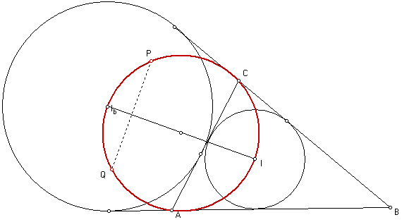 One of the circles that is invariant under isogonal conjugation